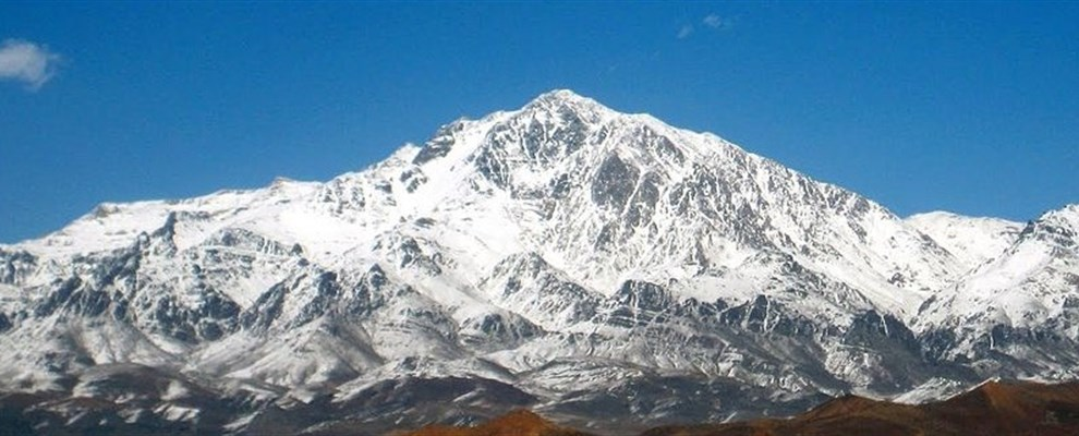 منظره ای از کوه شاه با ارتفاع 4380 متر در 12 کیلومتری شمال شهر بافت